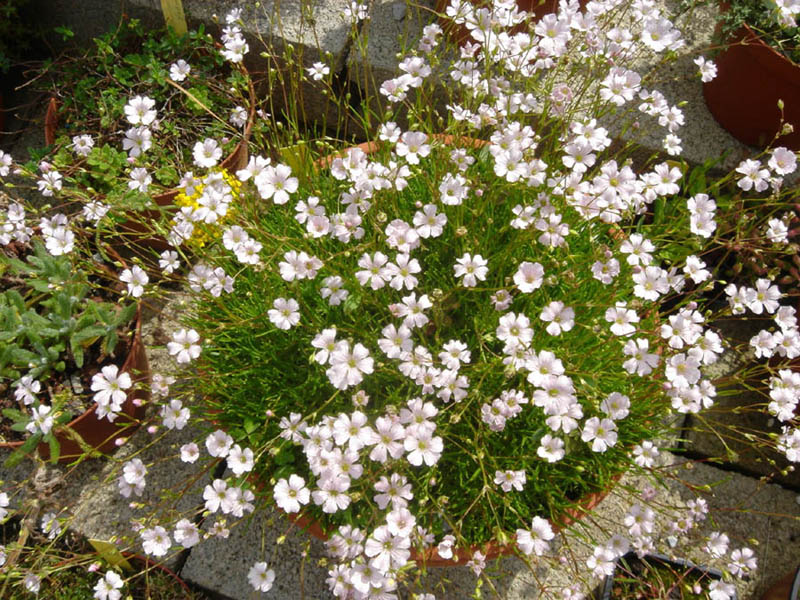 Gypsophila tenuifolia